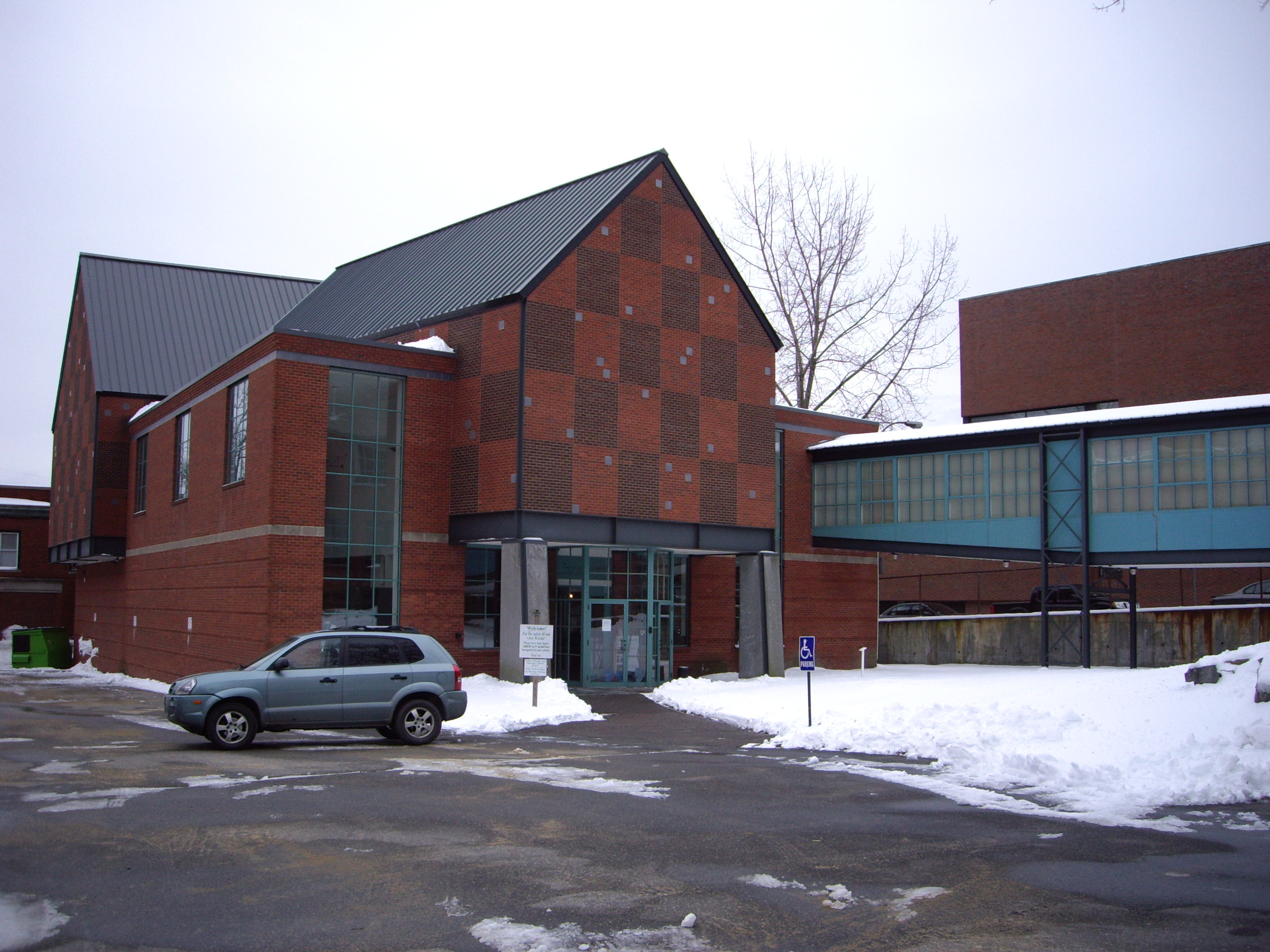 The Fitchburg Art Museum in Fitchburg Massachusetts